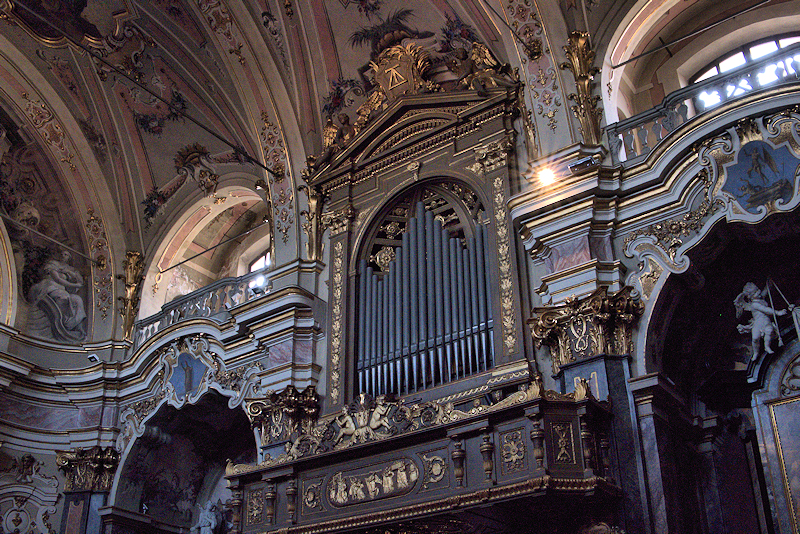 Organ of "Santissima Trinità" church in Crema, Italy